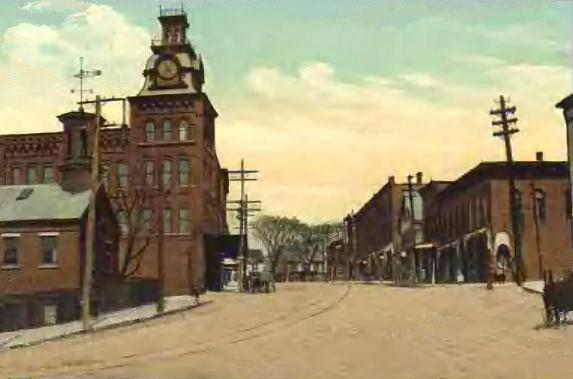 Main Street in c. 1910, Suncook, NH; from an old postcard.